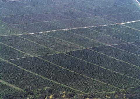 Villány, Hungary, aerialphotgraphy